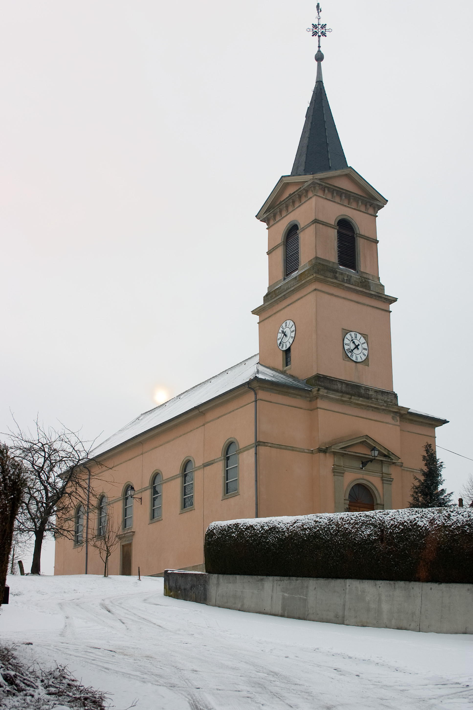 Church of Ruederbach, Sundgau, Alsace, France